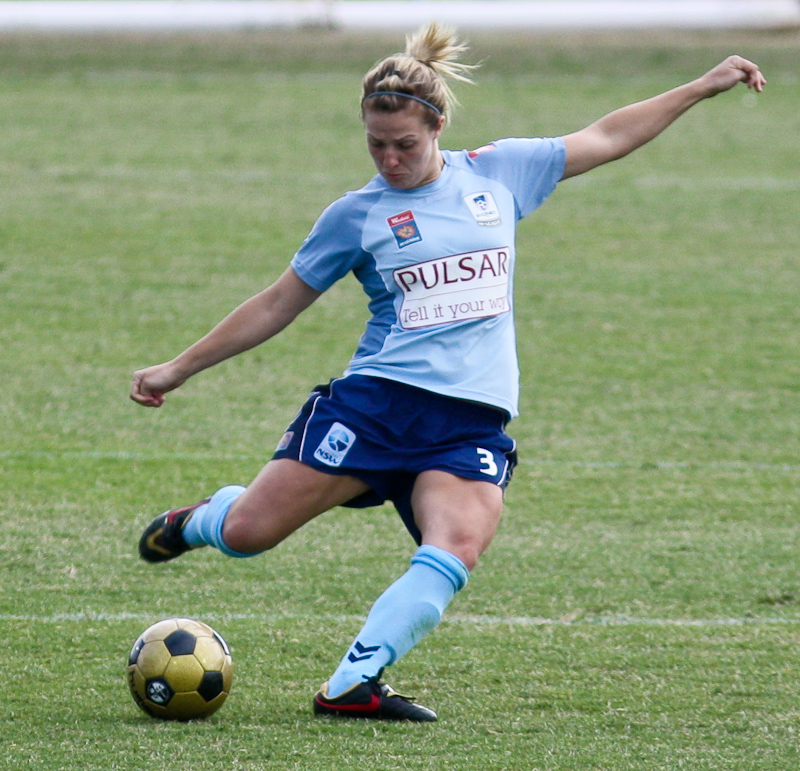 Danielle Brogan playing for Sydney FC in the W-League against the Newcastle Jets.